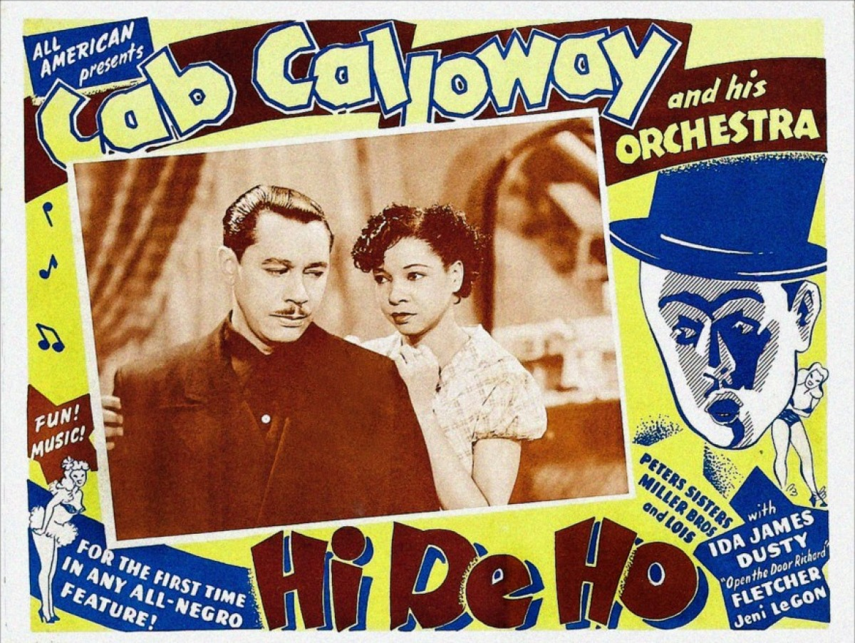 Cab Calloway and Jeni Le Gon in the American musical race film Hi De Ho (1947) - promotional poster